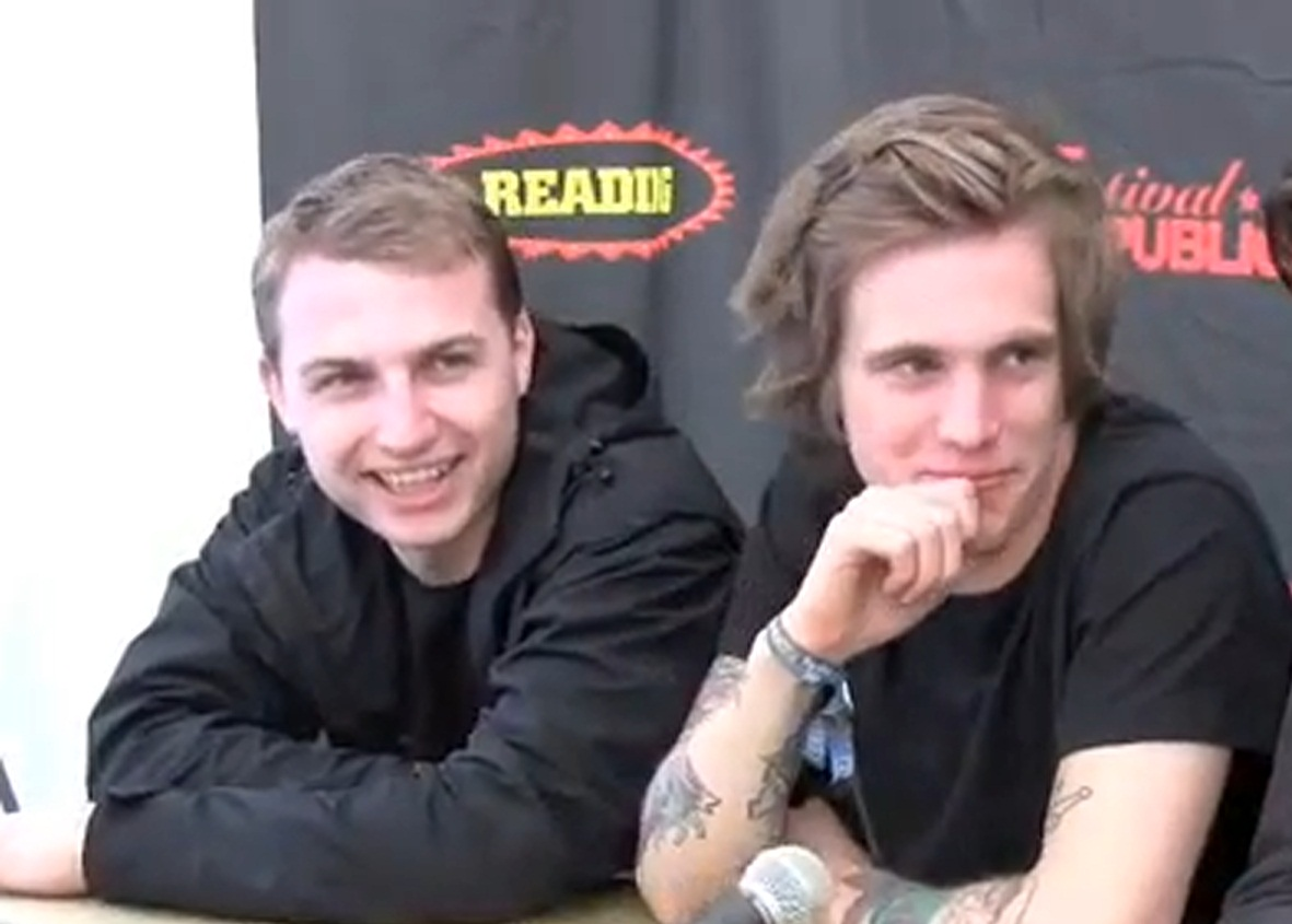 Cromby and Brown